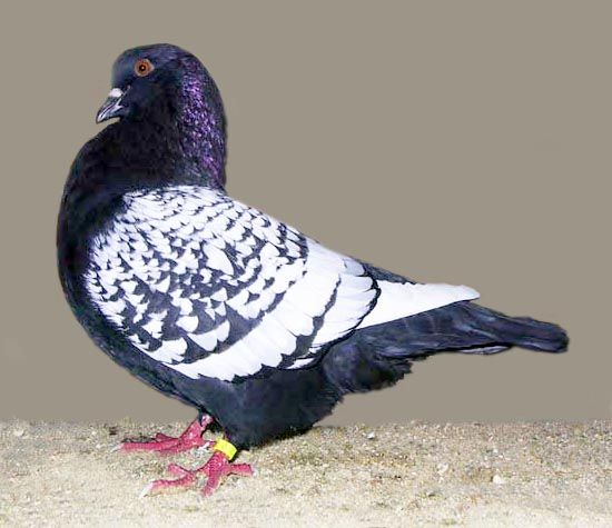 Polish Lynx (Black Laced)